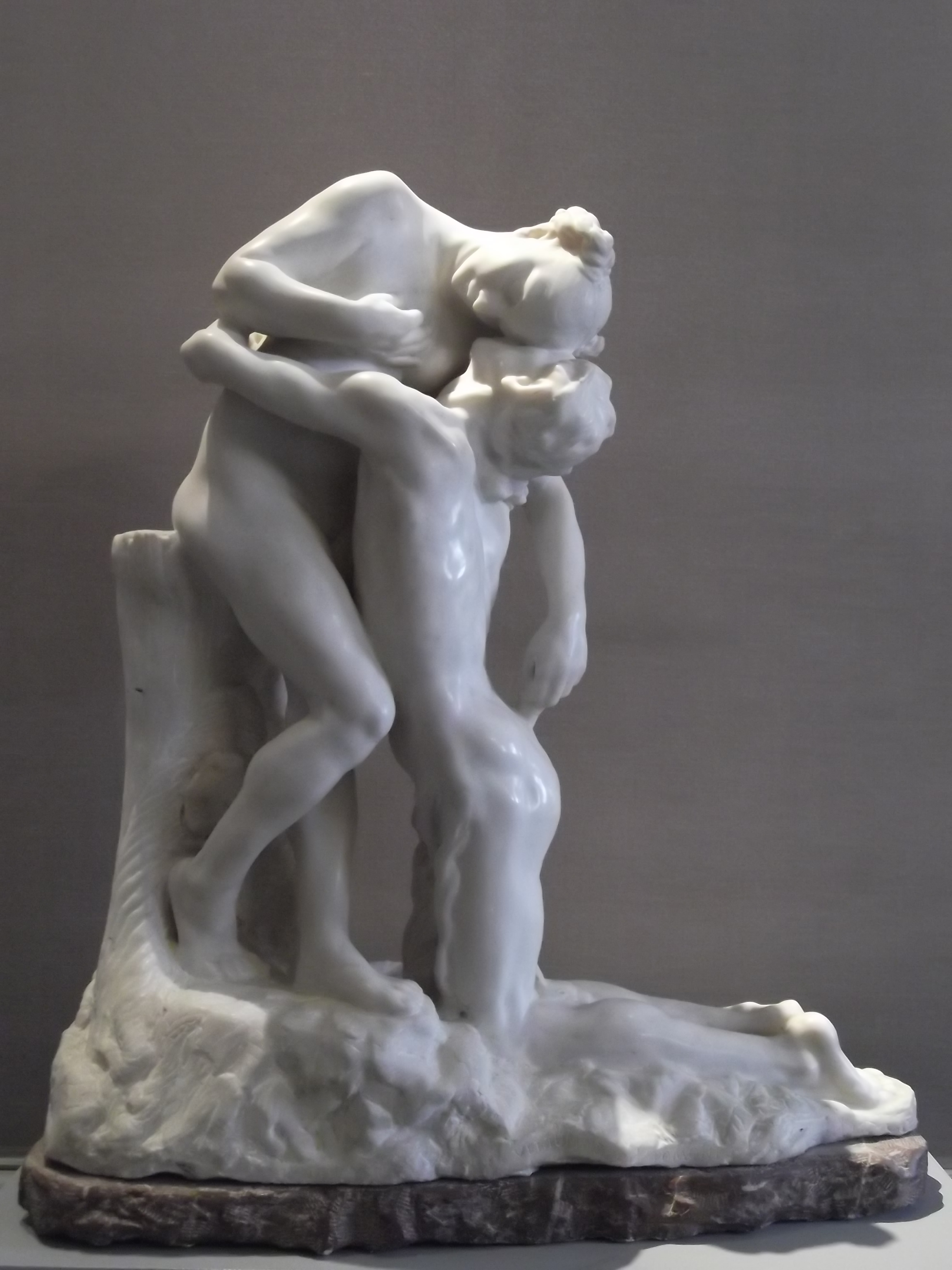 Sculpture in the Musée Rodin, Paris, France.